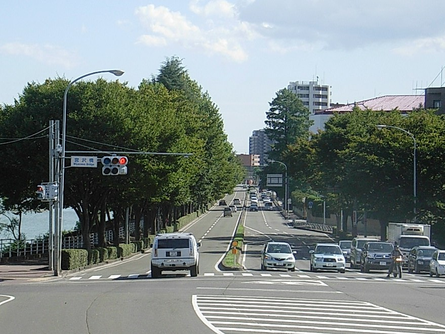 Hirose Riverside Avenue (Hirose Kahan Dōri) - Negishimachi, Taihaku ward, Sendai, Miyagi prefecture, Japan. From the Negishimachi Footbridge toward southeast. Left is the Hirose River.